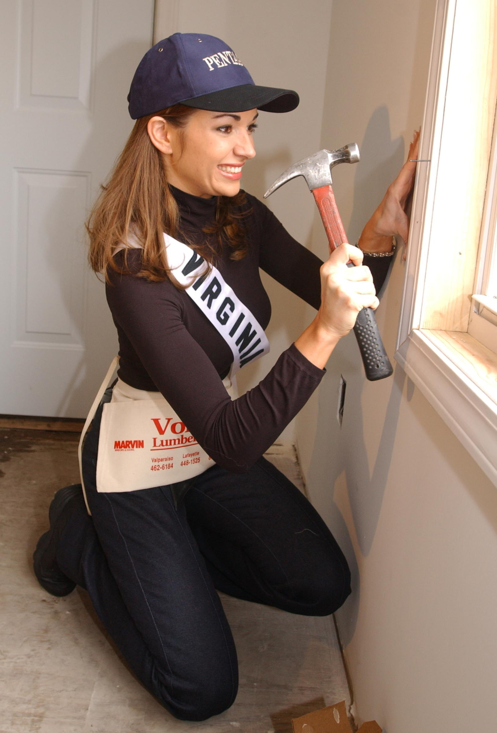 Julie Laipply, Miss Virginia USA 2002, hammers a nail during work at a Habitat for Humanity house in Gary, Indiana, Feb. 21.